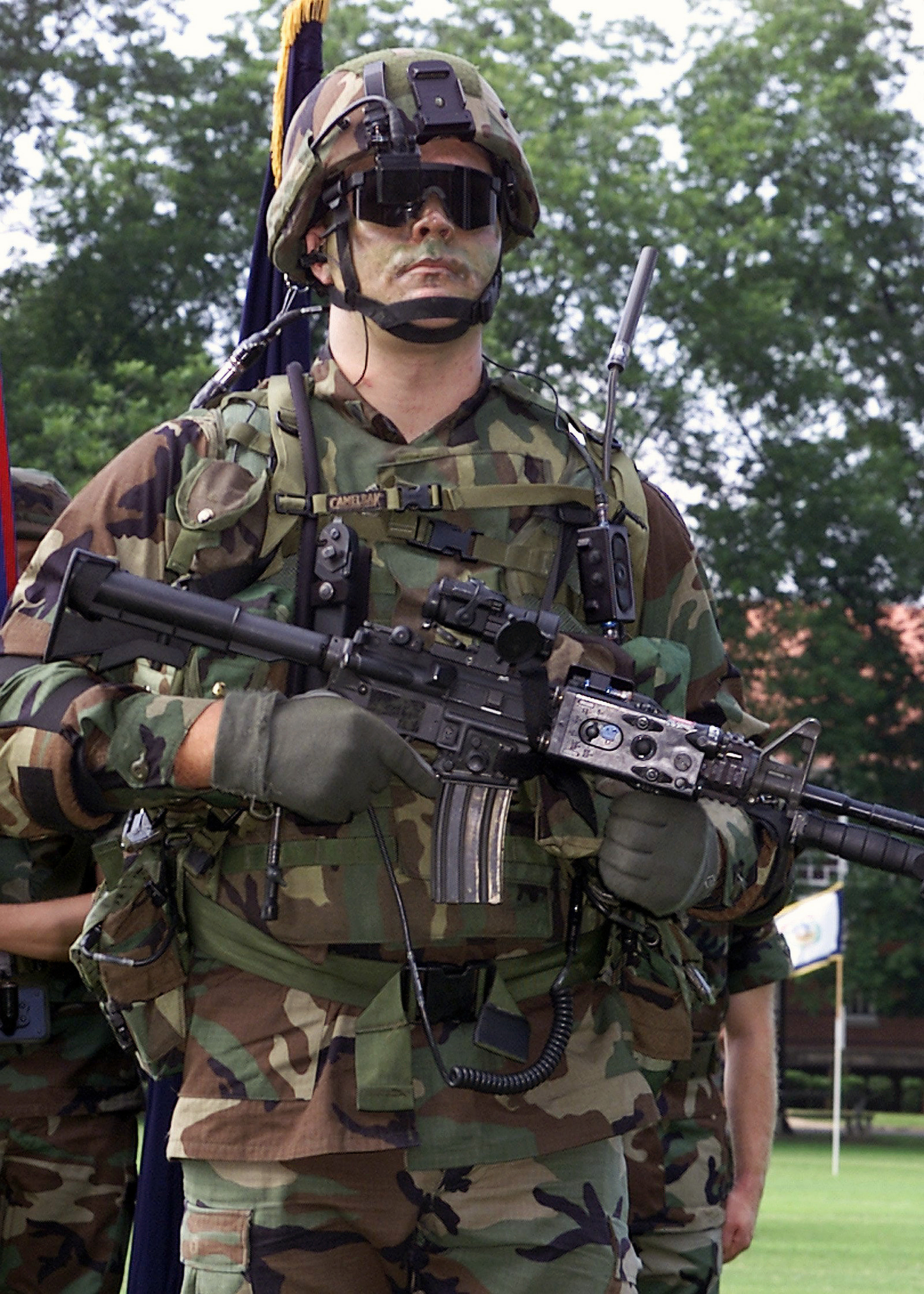 A U.S. Army soldier displays the 21st Century, Land Warrior (LW), Integrated Fighting System for the dismounted combat soldier, during the Army’s 226th Birthday Celebration at Fort McPherson GA. The system consists of a global positioning system (GPS), within a computer/radio subsystem (CRS) and he is armed with a 5.56mm Colt M4 carbine.